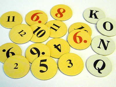 some tiles for parlor game Settlers of Catan.